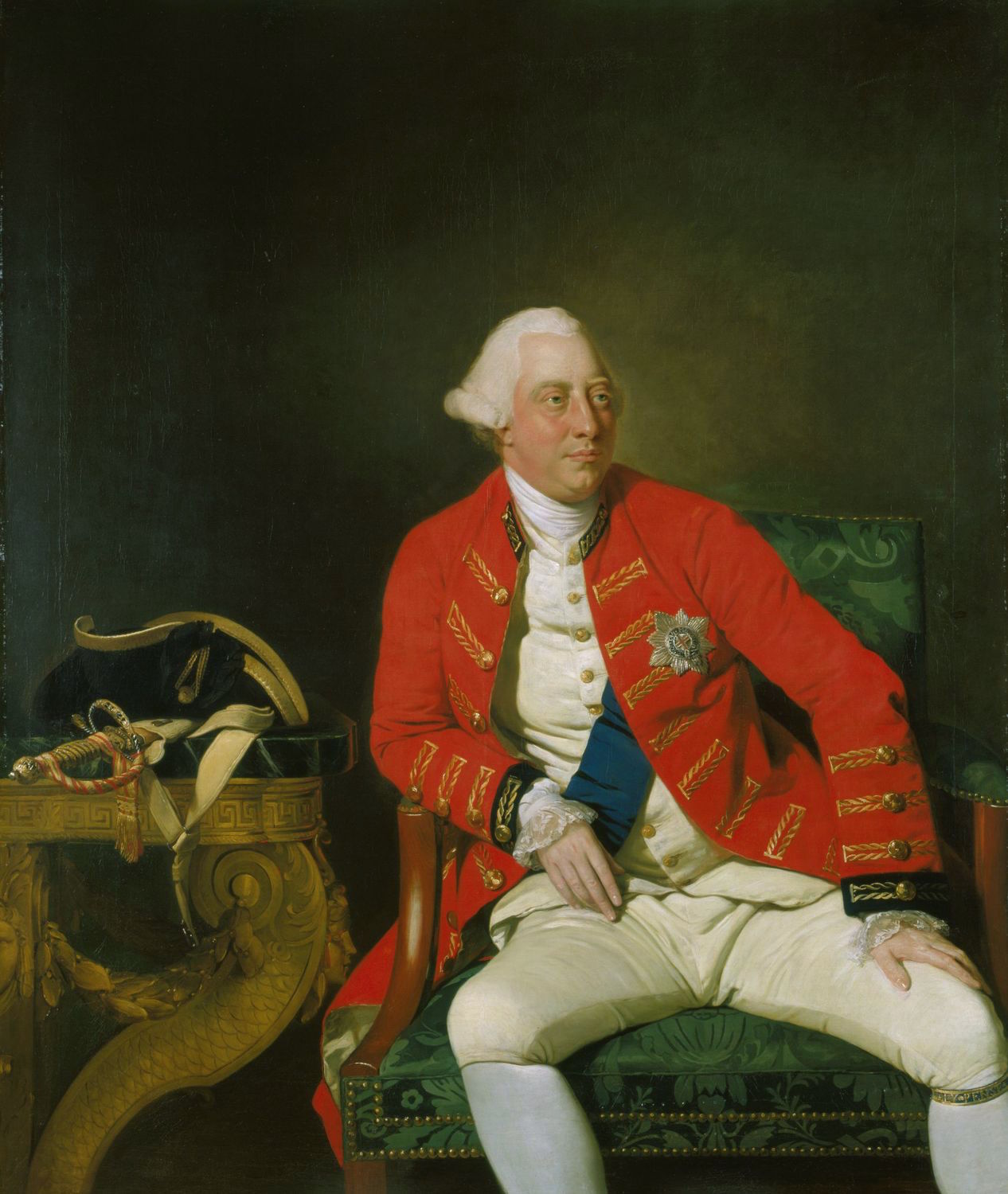 A three quarter length figure of King George III seated in a General Officer's coat with the ribbons and star of the Garter, wearing the Garter around his leg; his hat and sword resting on a nearby table. Finished in 1771 it portrays the king at age 33, with a steady serious gaze, a ruddy healthy face, and a calm assured demeanor.